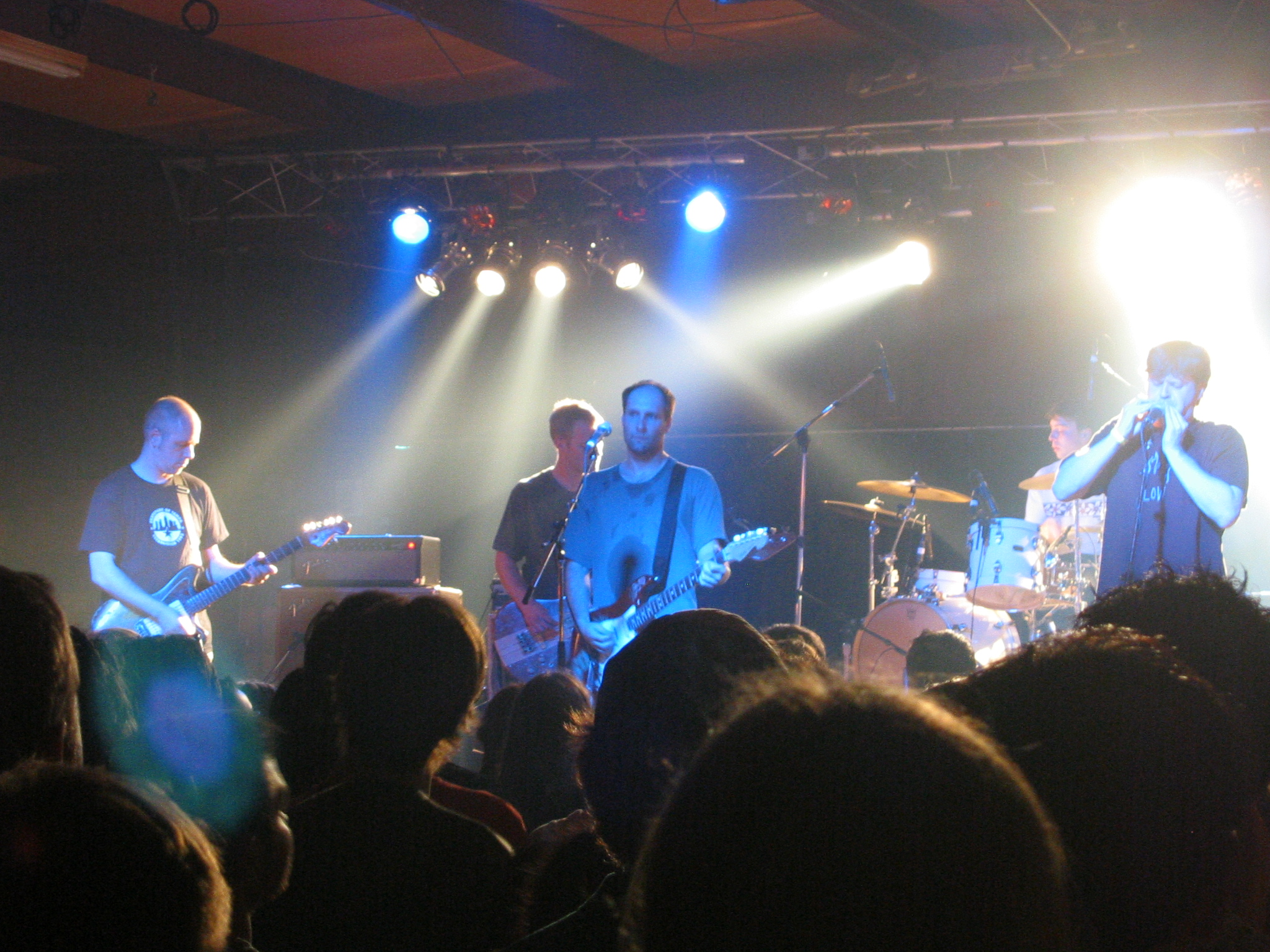 Built to Spill